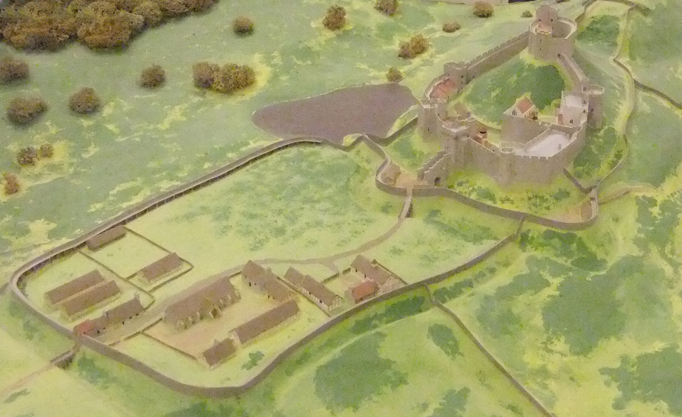 Model of Wigmore Castle. Photo taken at Ludlow Museum, Castle Street, Ludlow, Shropshire, England.